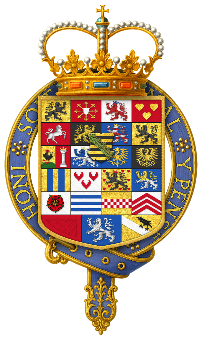 Gartered coat of arms of Ernest I, Duke of Saxe-Coburg and Gotha, KG